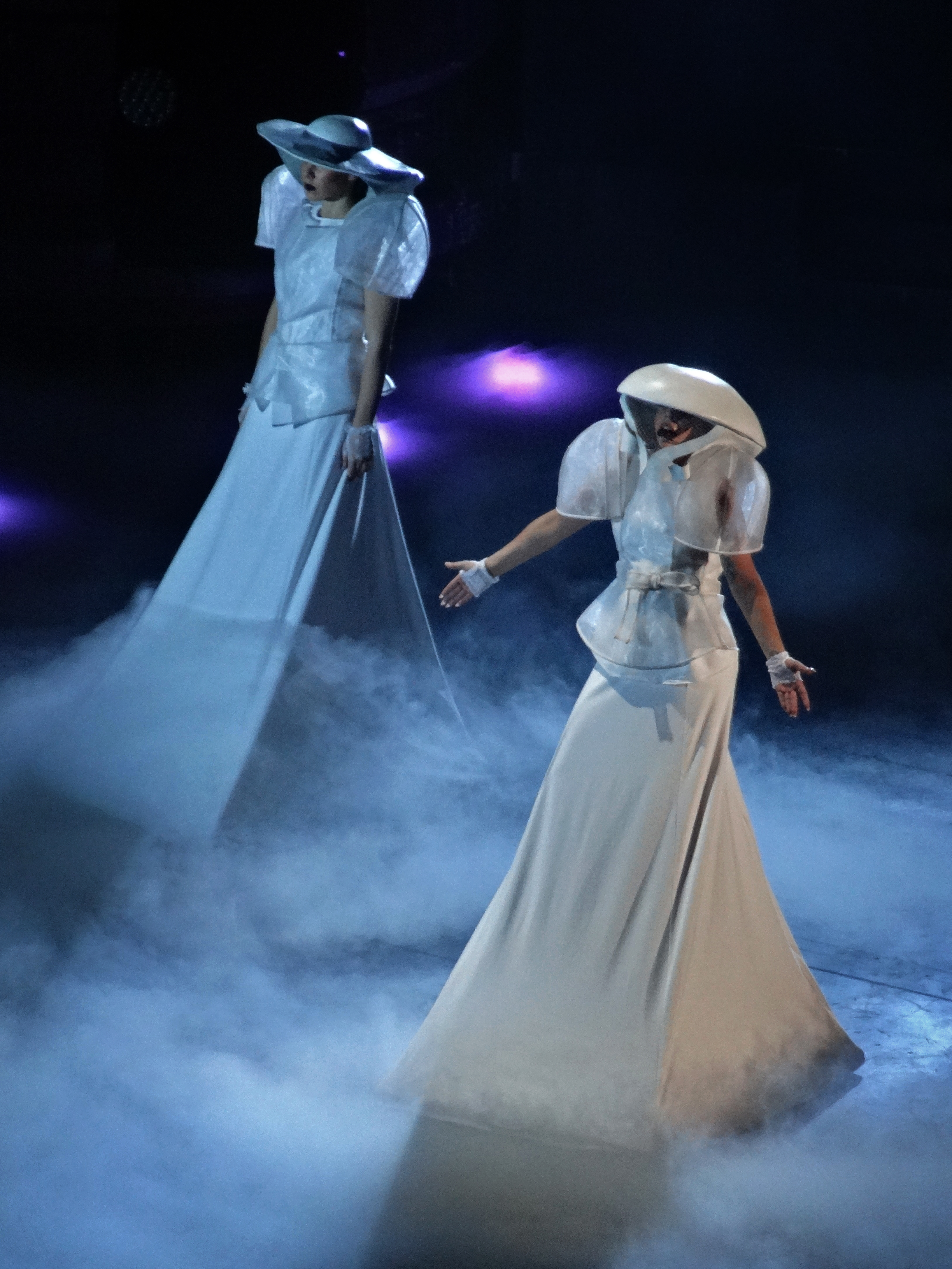 Lady Gaga performing "Bloody Mary" on The Born This Way Ball Tour.